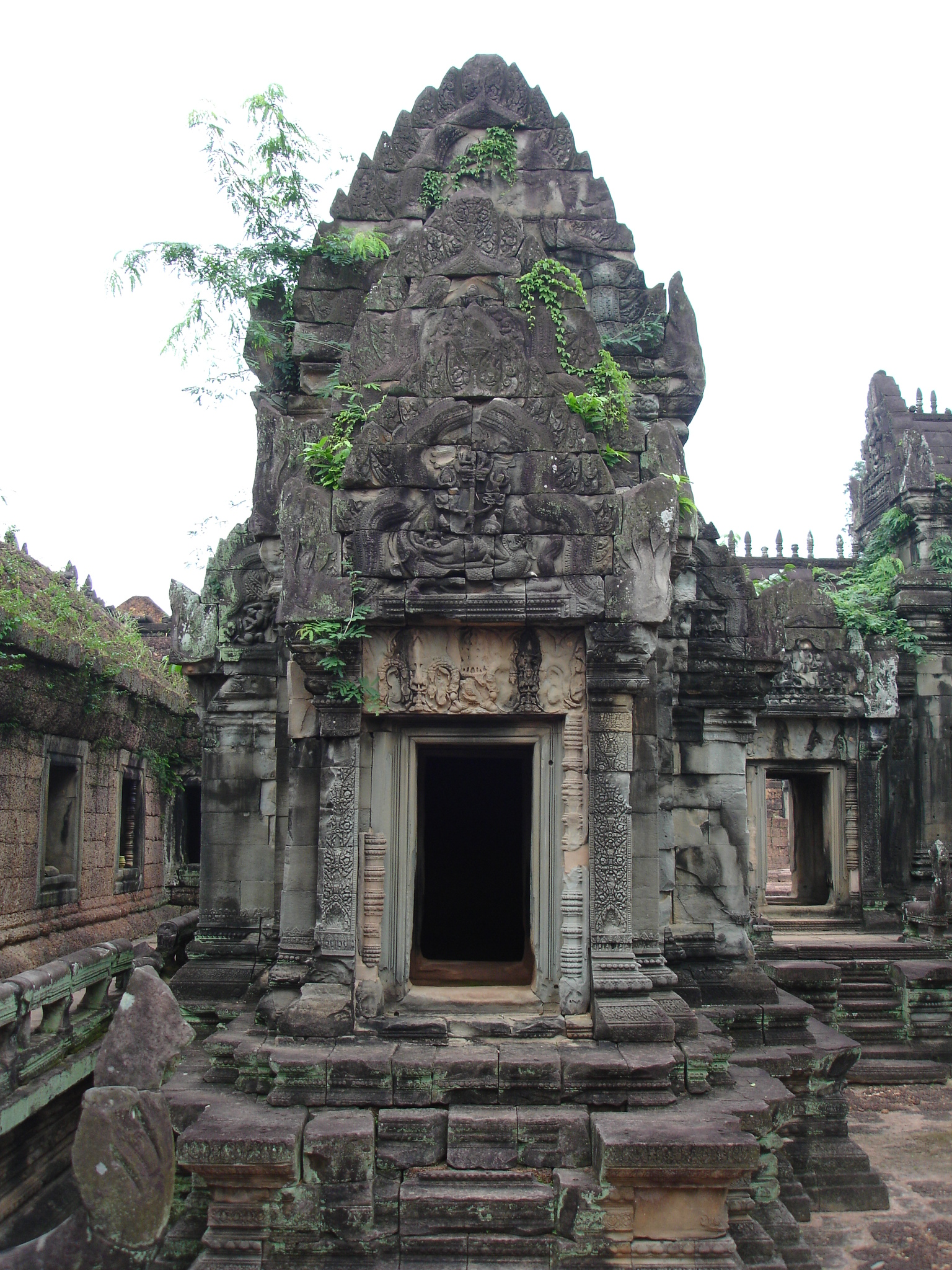 Photo by Richard Socher, one of the photos from Published under the Creative Commons License